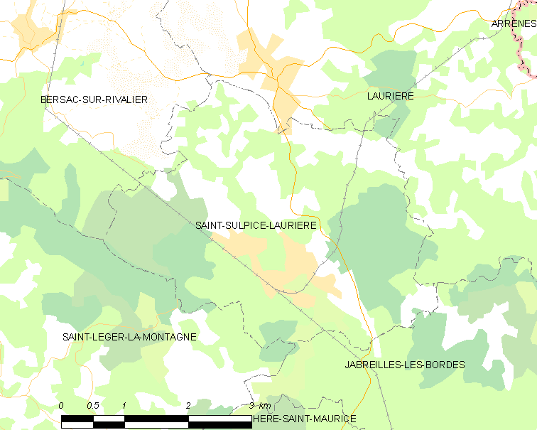 Map of French municipality Saint-Sulpice-Laurière